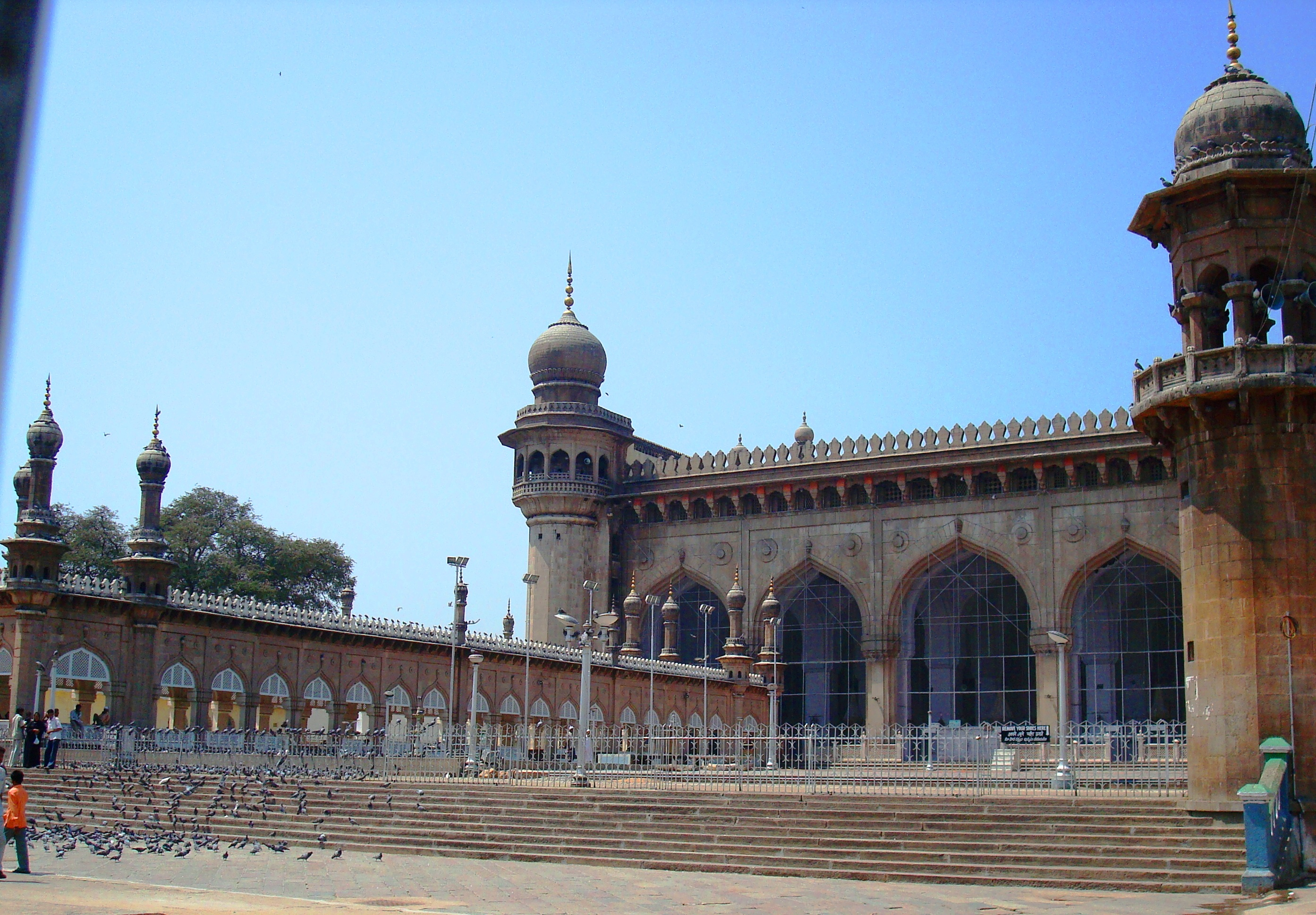 Mecca masjid, one of the famous mosques of Hyderabad city, India. self photographed